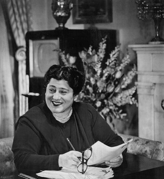 Photo of Gertrude Berg at work over scripts for the television program The Goldbergs. When Berg first began writing, she didn't use the household's typewriter, but wrote the initial story by hand in pencil. When she finally was able to get an appointment with someone at NBC about her story, the executive tried reading what she had written and couldn't. Berg then started reading her script to the executive; this not only sold the radio program, but got Berg the job of being the lead actress in it. She continued to author her scripts by hand in pencil as long as The Goldbergs were on the air.